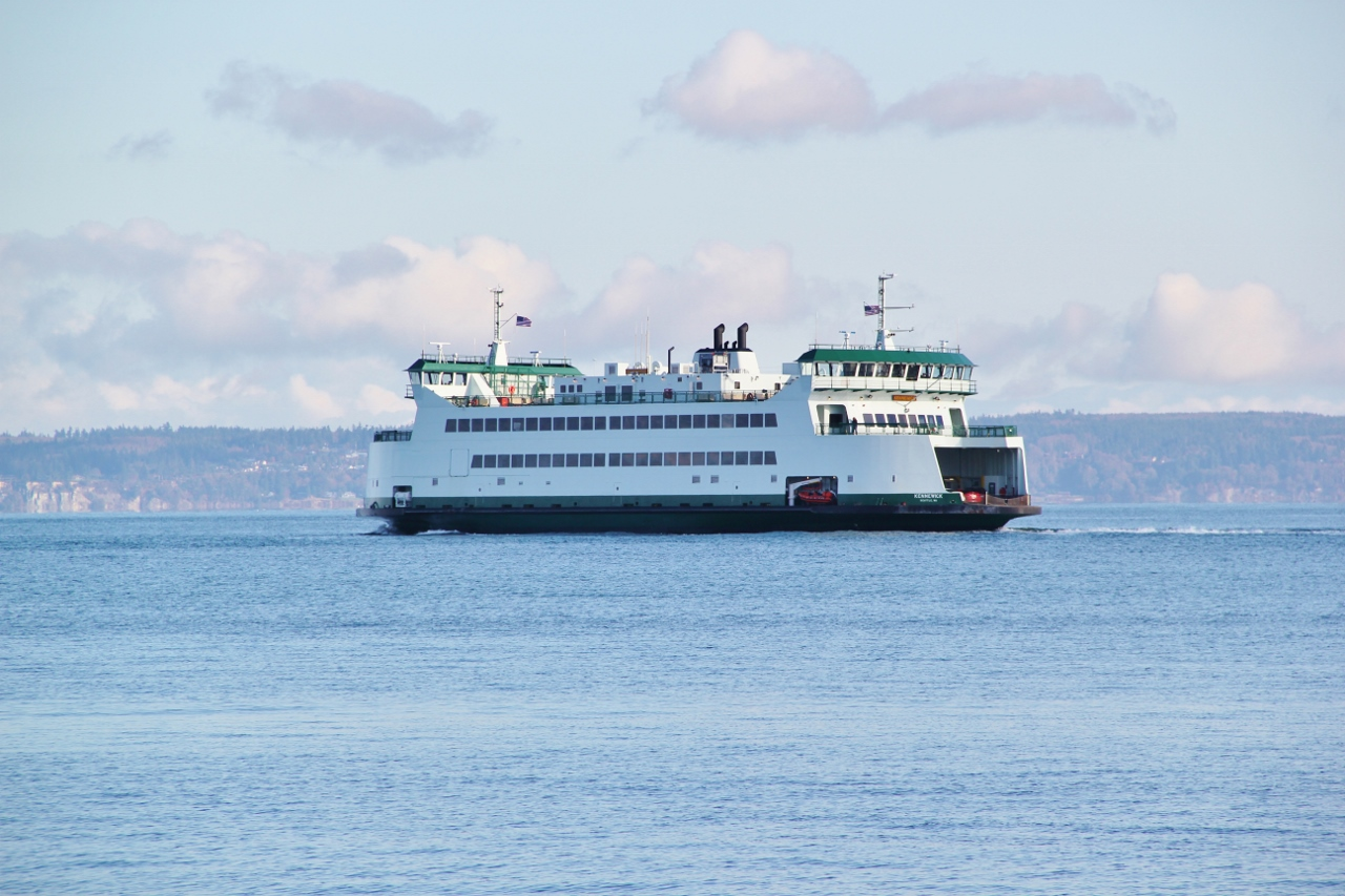 The M/V Kennewick leaves Port Townsend for Coupeville